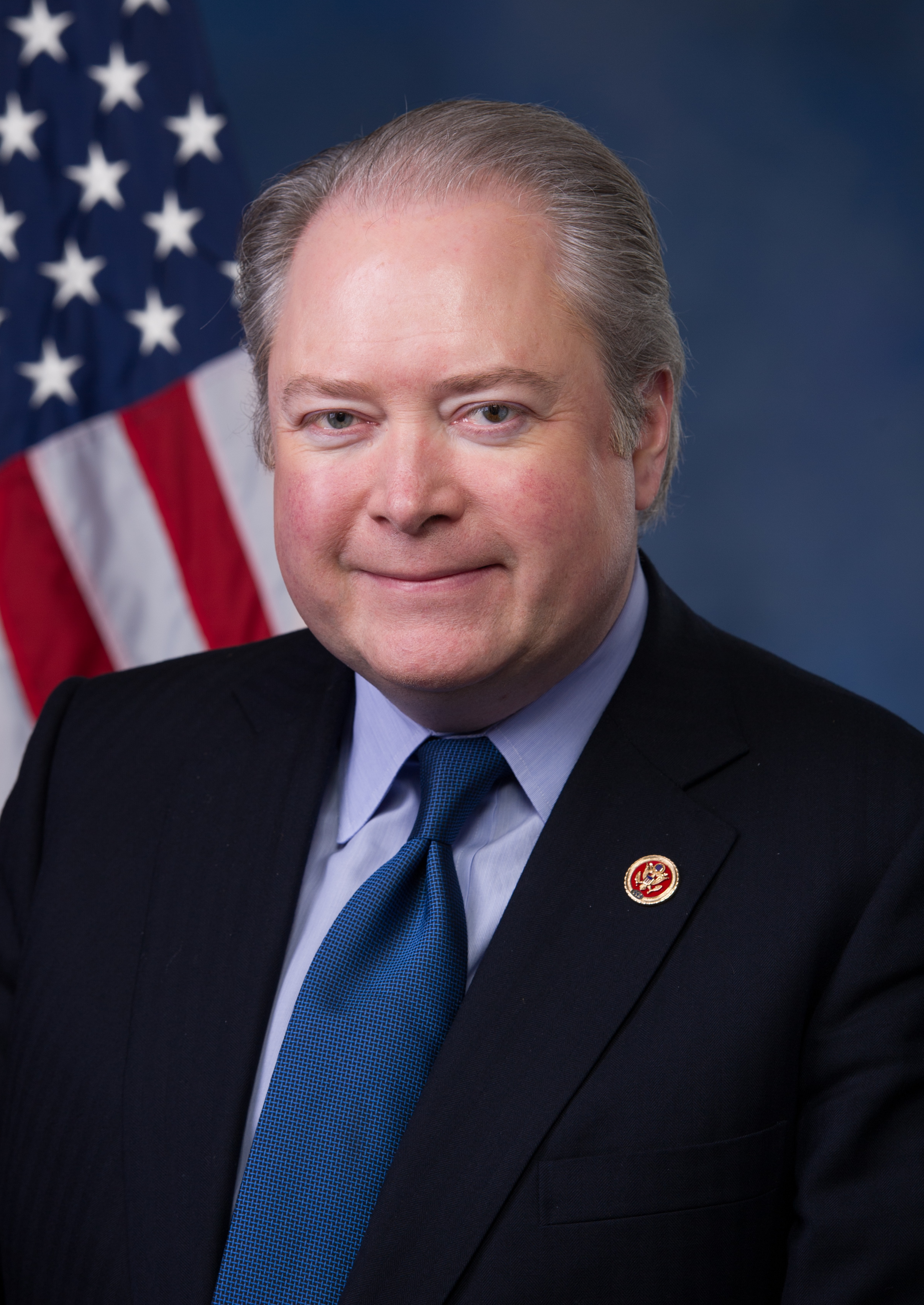 George Holding, U.S. Representative from North Carolina.